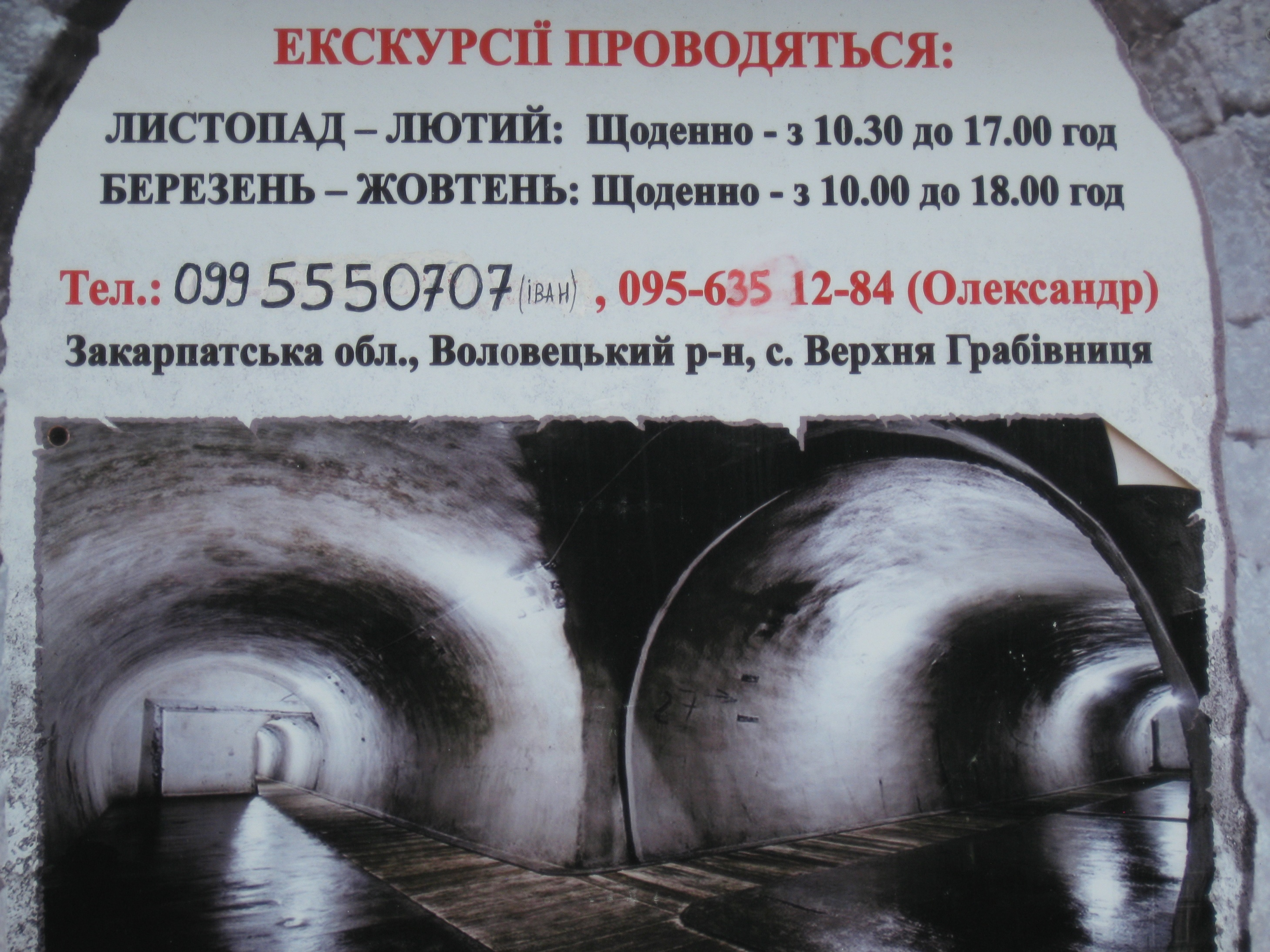 Arpad line. Verchnia Hrabivnycia